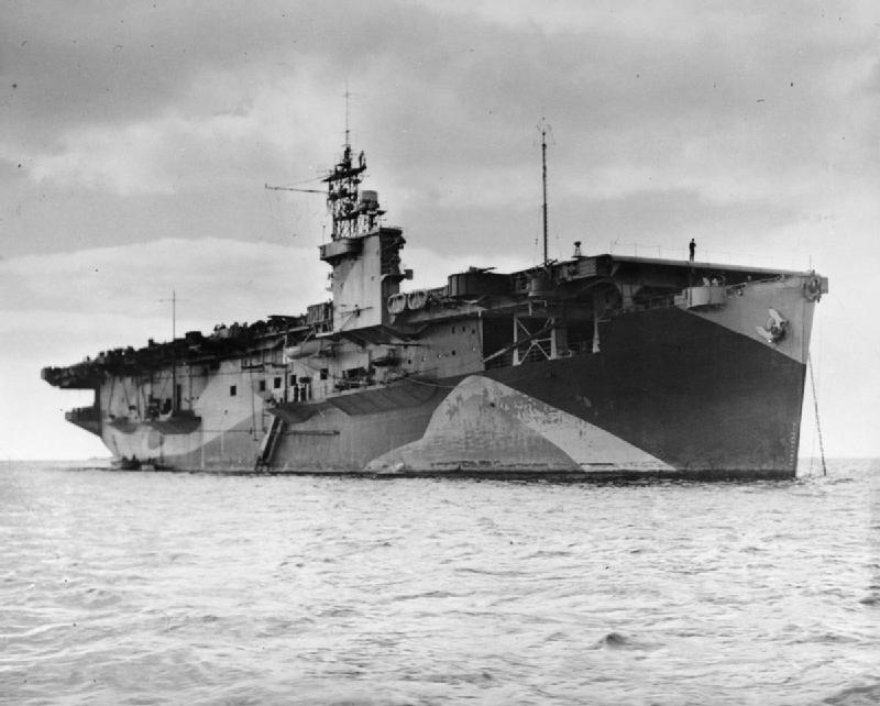 HMS Fencer at anchor.